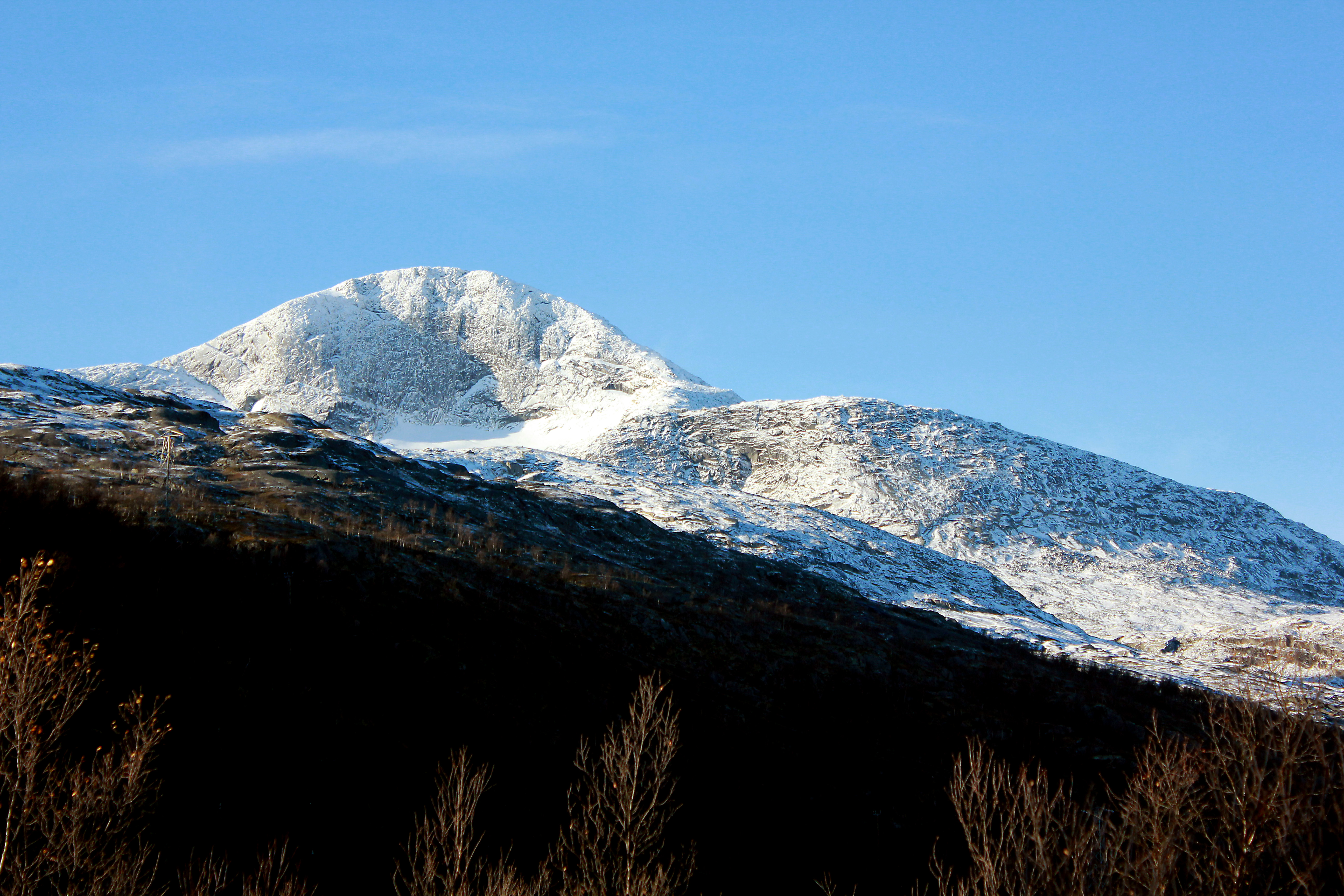 The mountain Sildviktind (1 360 m) in Narvik, Norway. Photo from near Katterat Railway Station.